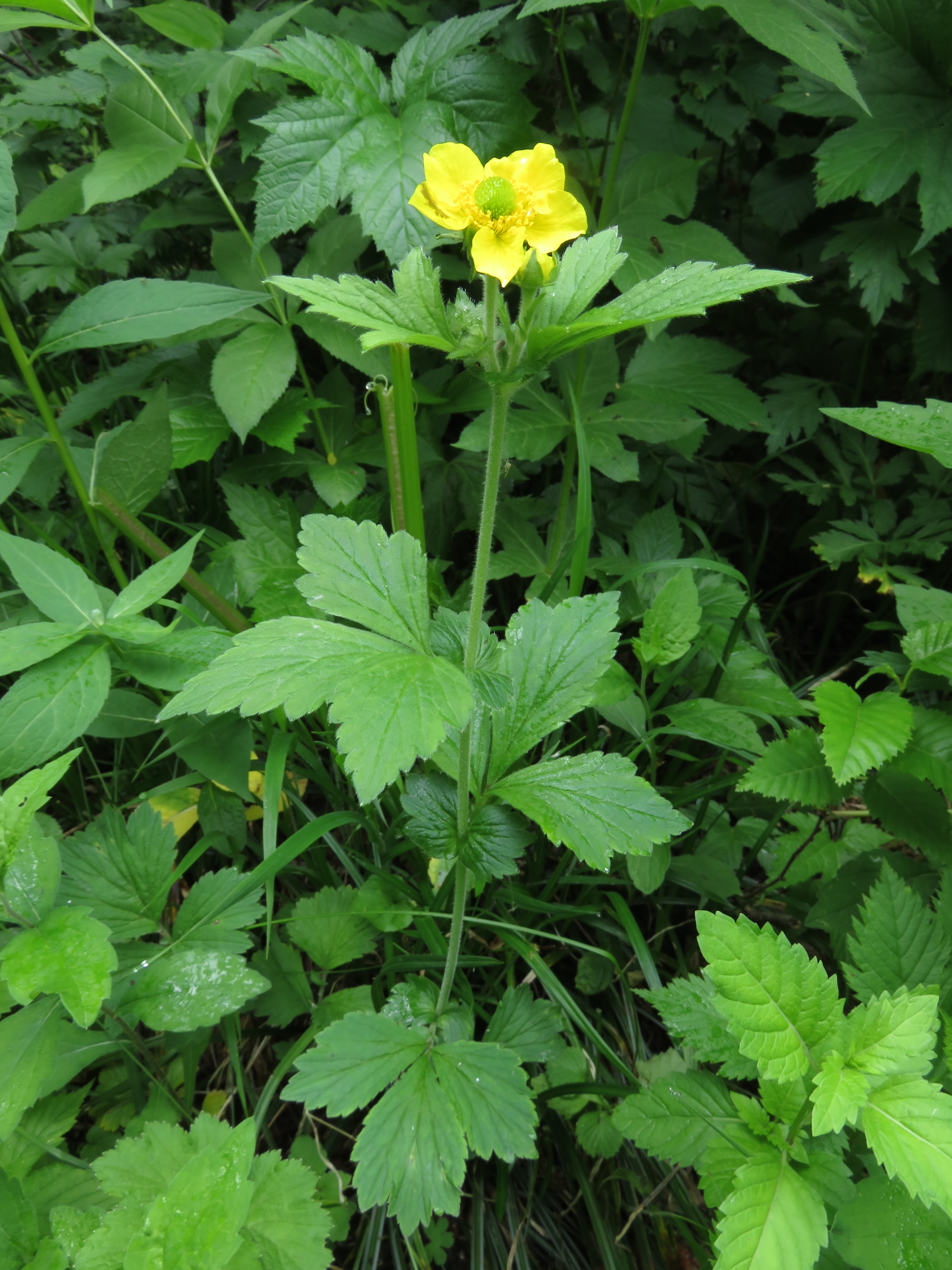 Geum aleppicum, Kitakami mountains, Iwate pref., Japan